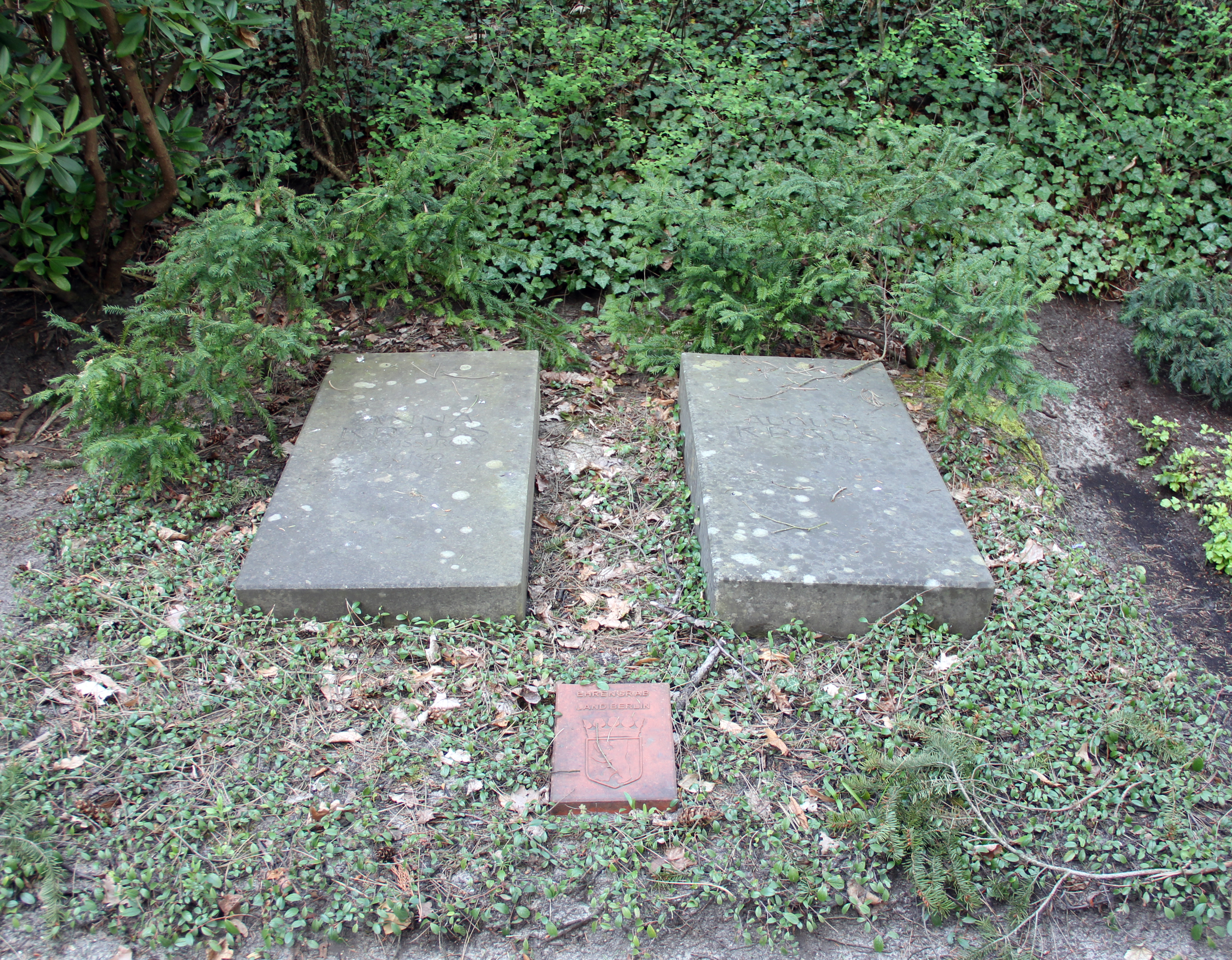 Grave of honor, August Kraus, Trakehner Allee 1, Berlin-Westend, Germany